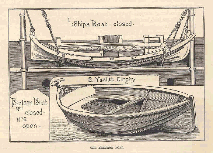 Berthon Boat Subject: Boats and boating Tag: Expositions, Vessels